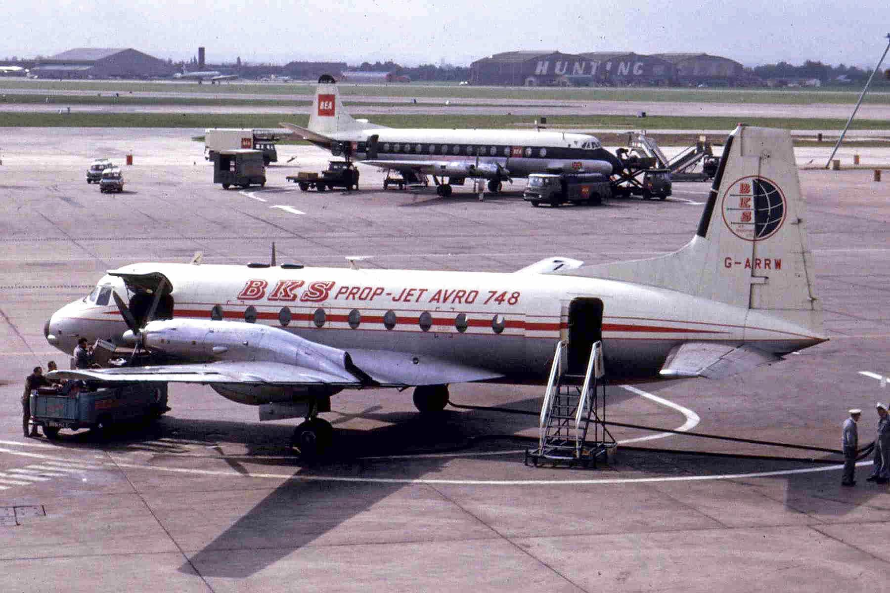 BKS stood for Barnaby, Keegan & Stephens, the three founders